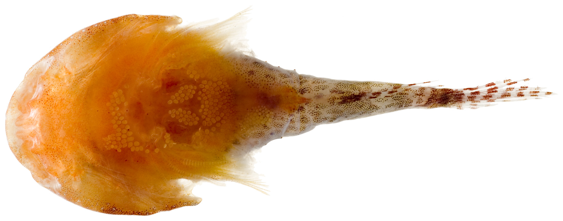 Acyrtus artius Briggs, 1955—papillate clingfish, 20.4 mm SL, ventral view showing pelvic disk. Photo by JT Williams.